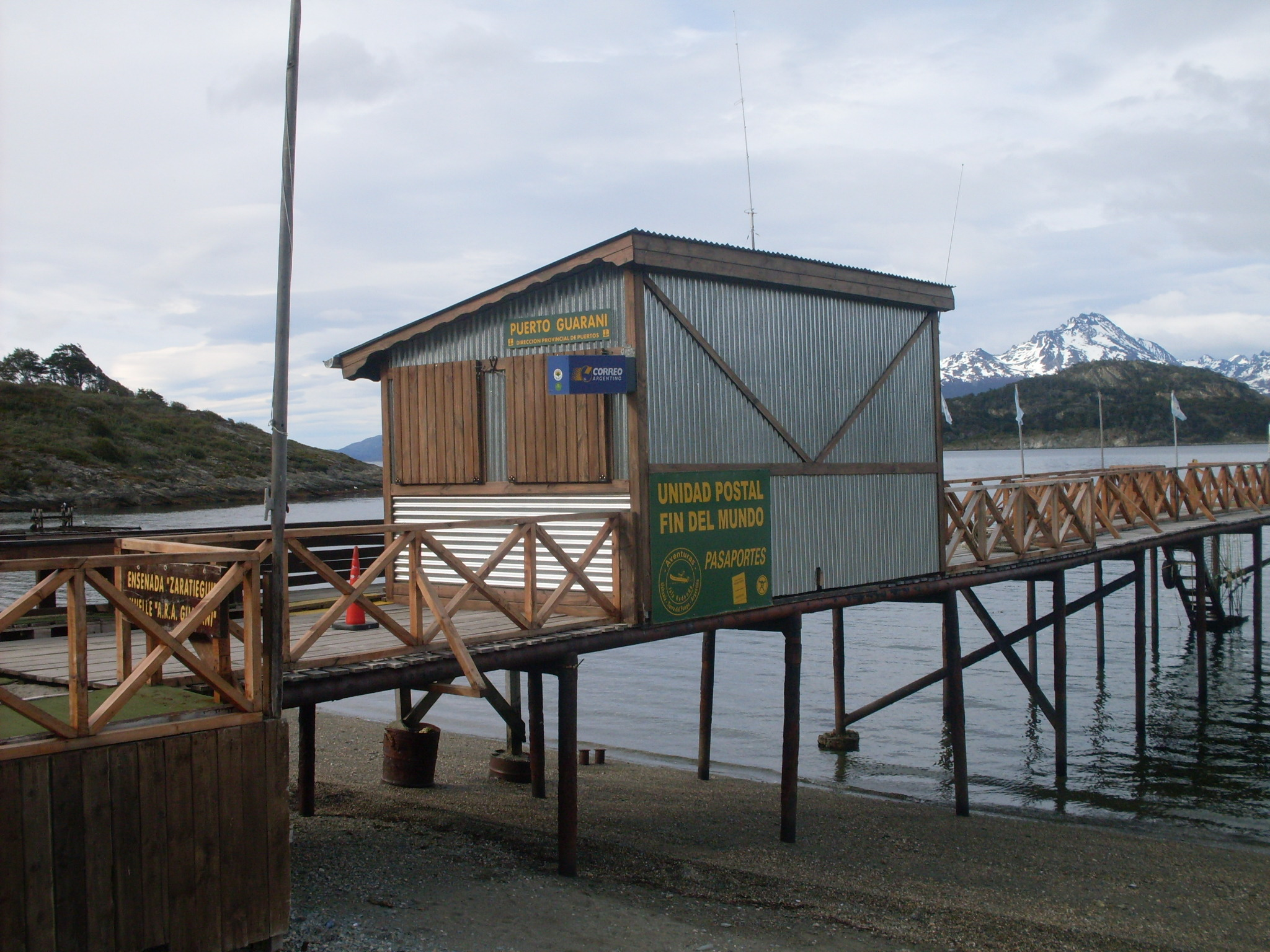 Ushuaia post office of the end of the world